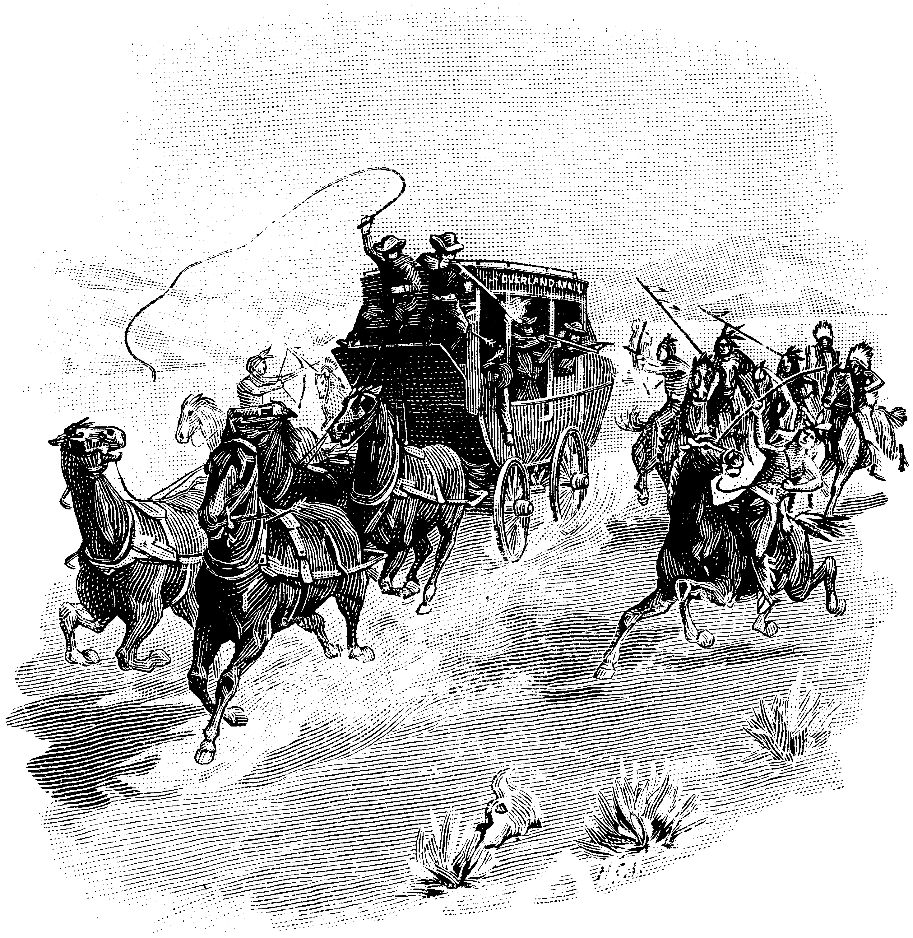 Indians attacking a Stage-Coach in the Far West Forty Years ago, before the First Pacific Railroad was built.